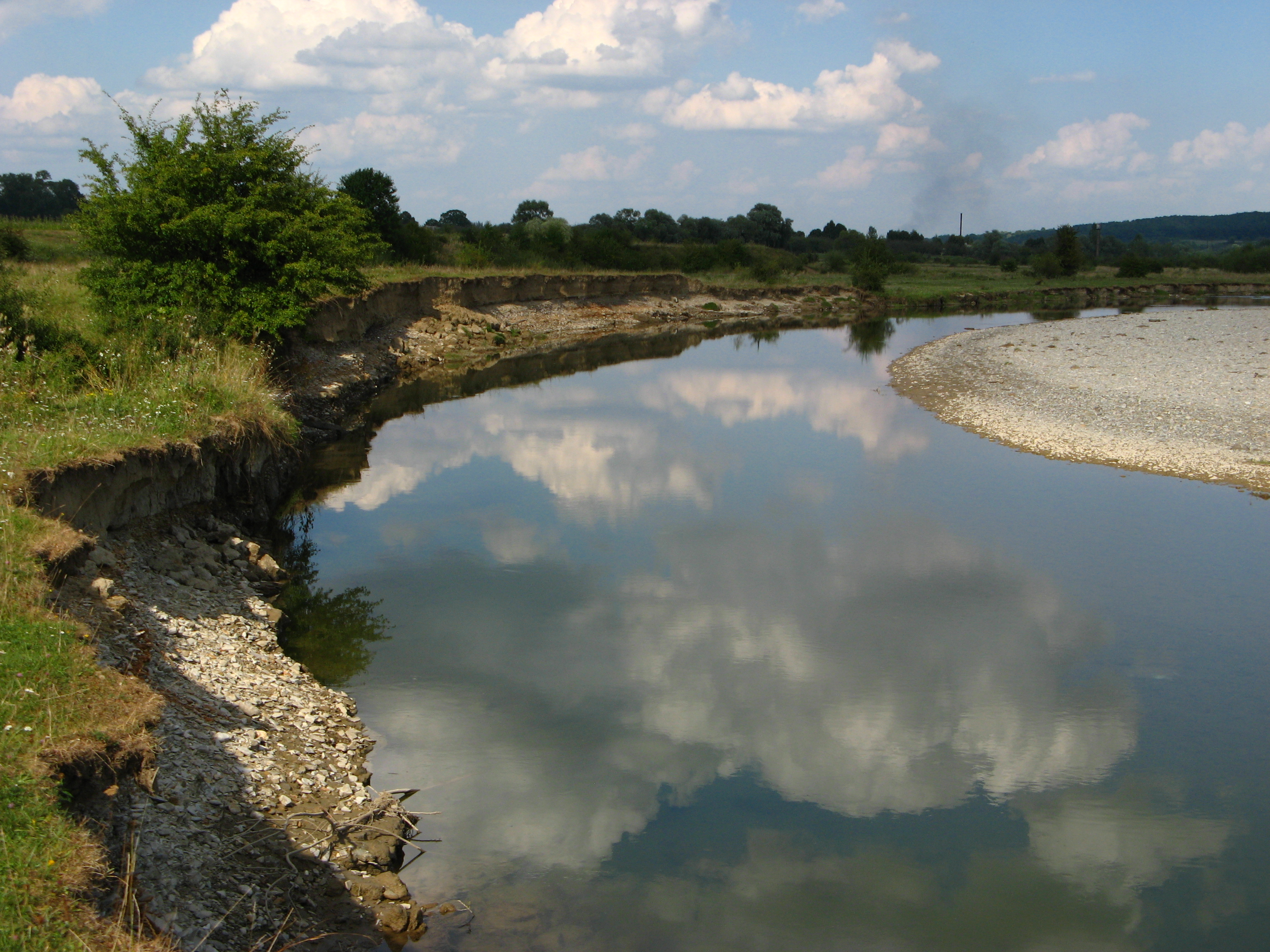 Vigor-2